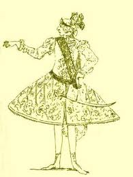 Caricature of Gizziello, famous Italian castrato singer, in an operatic role